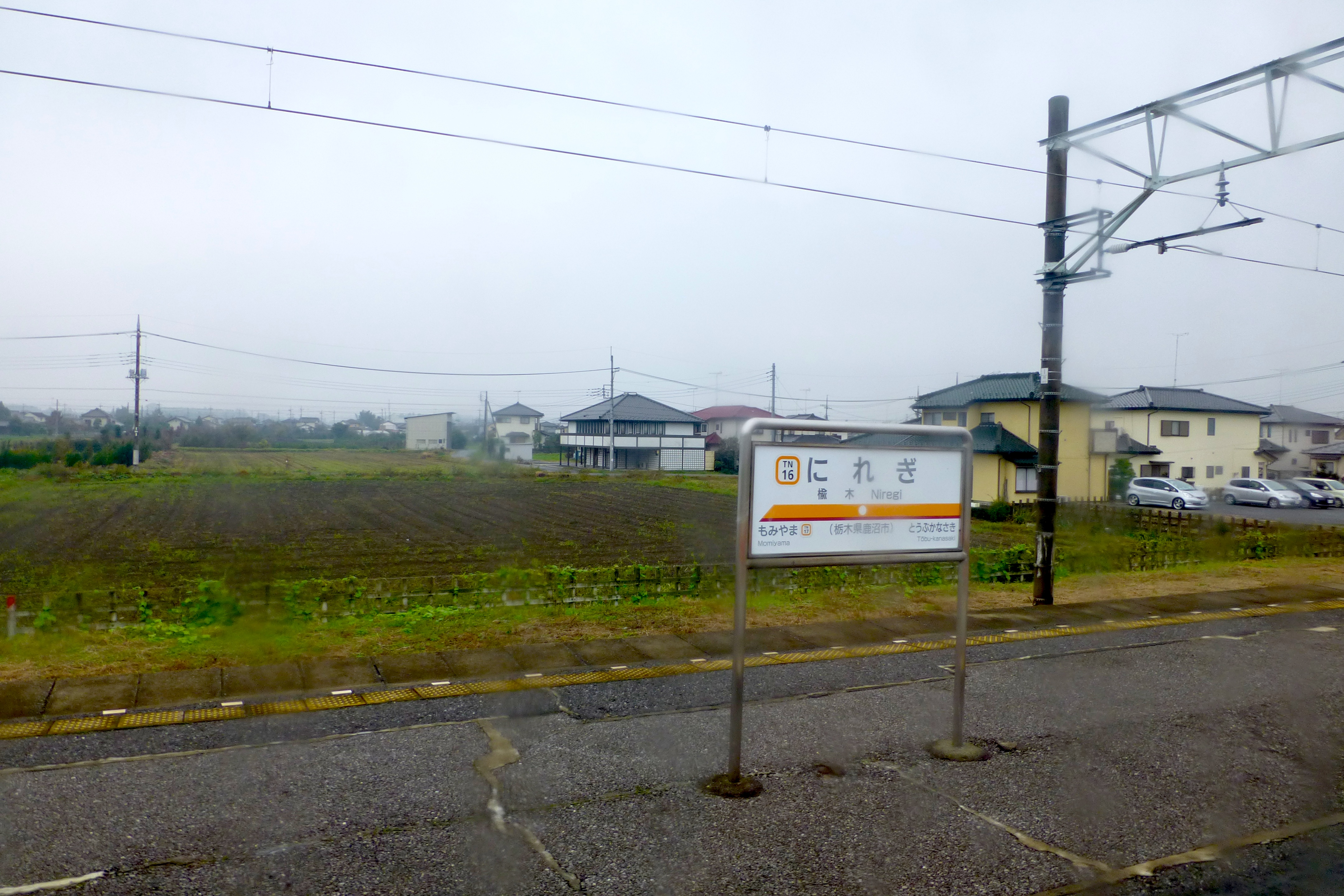 The platform at Niregi Station in Kanuma, Tochigi Prefecture, Japan